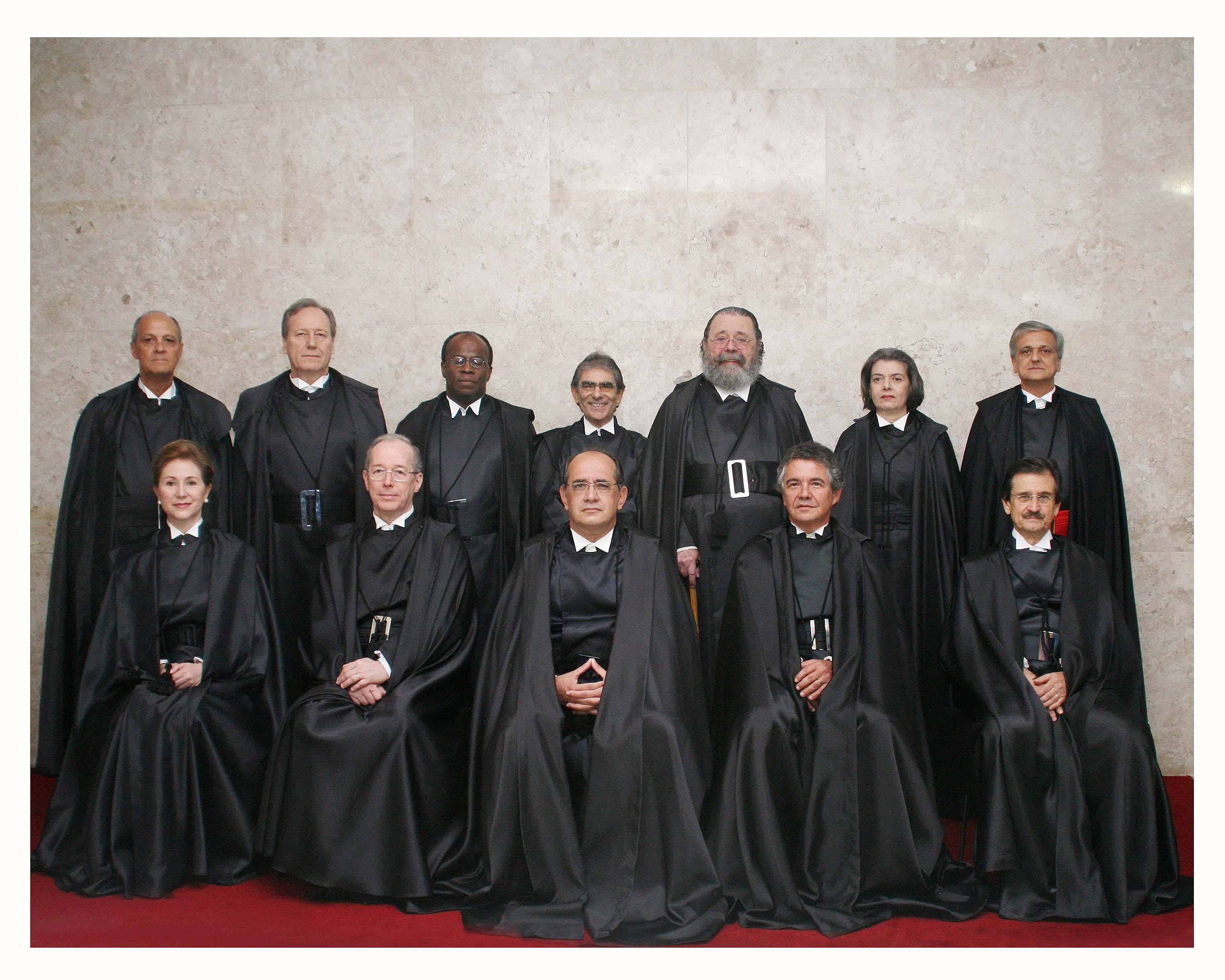 Current Judges of the Brazilian Supreme Court.